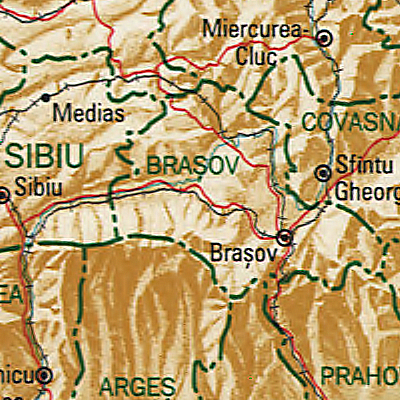 Map of Brașov County, Romania.